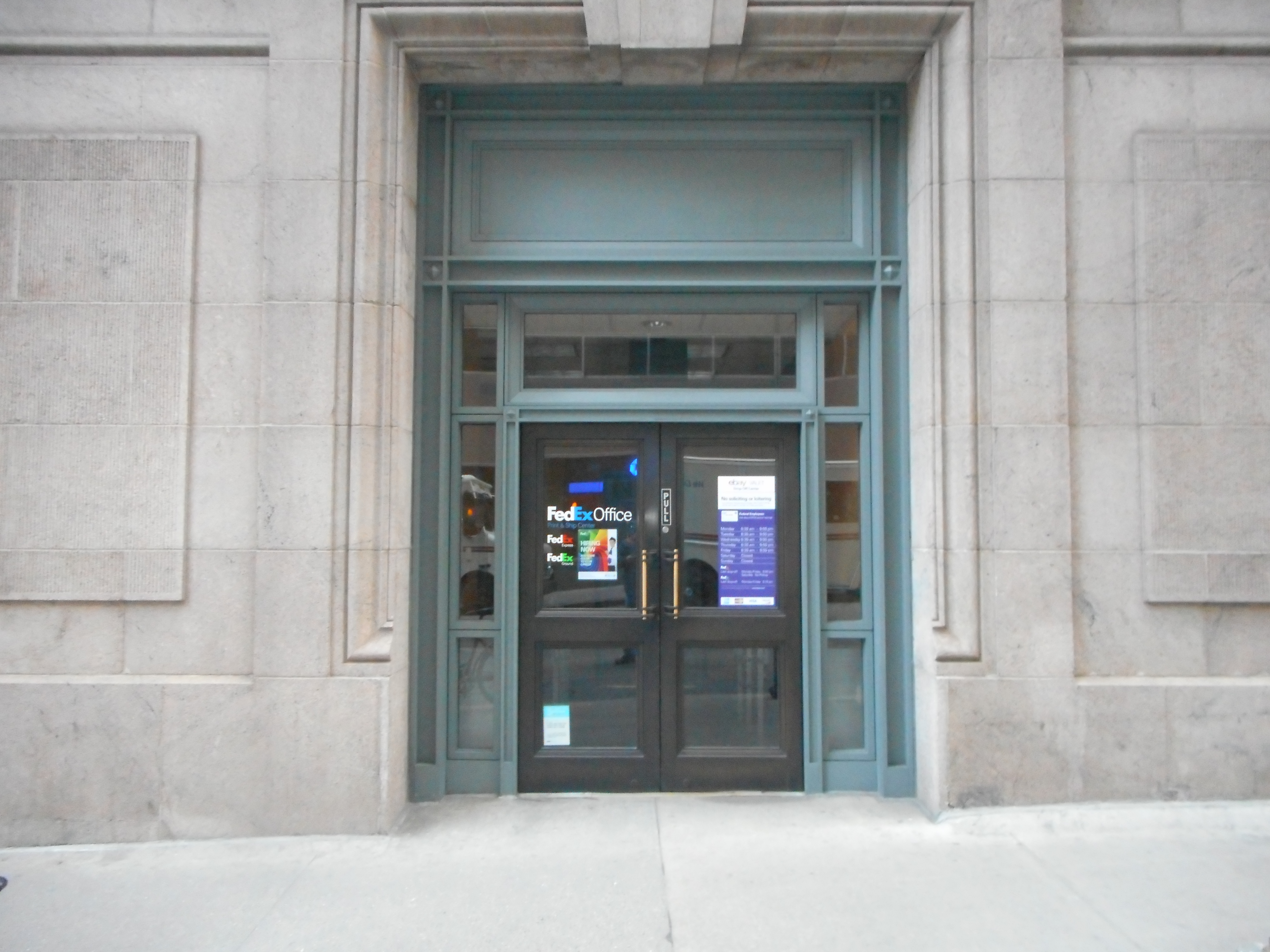 An office for "Fed Ex Office" on 45th Street at the Grand Central Annex of the United States Postal Service in Midtown Manhattan behind Grand Central Terminal in New York City.